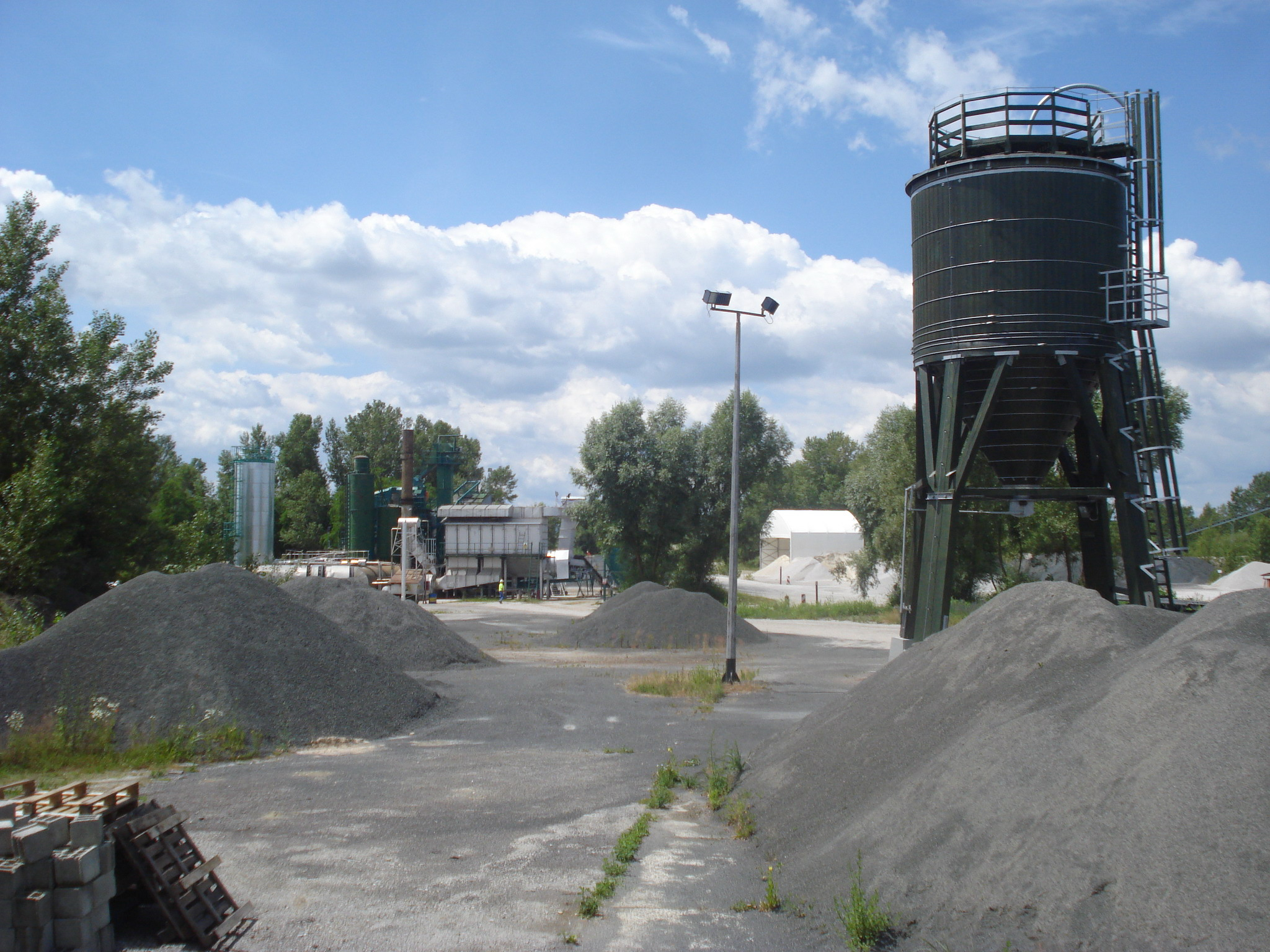 Asphalt plant for hot mix in Ivanovec, Medjimurje County, Croatia - northeast viewHrvatski: Asfaltna baza u Ivanovcu, Međimurska županija, Hrvatska - pogled sa sjeveroistočne strane